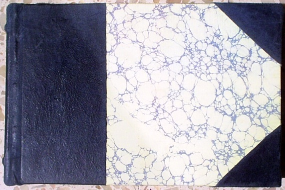 Halfbound book